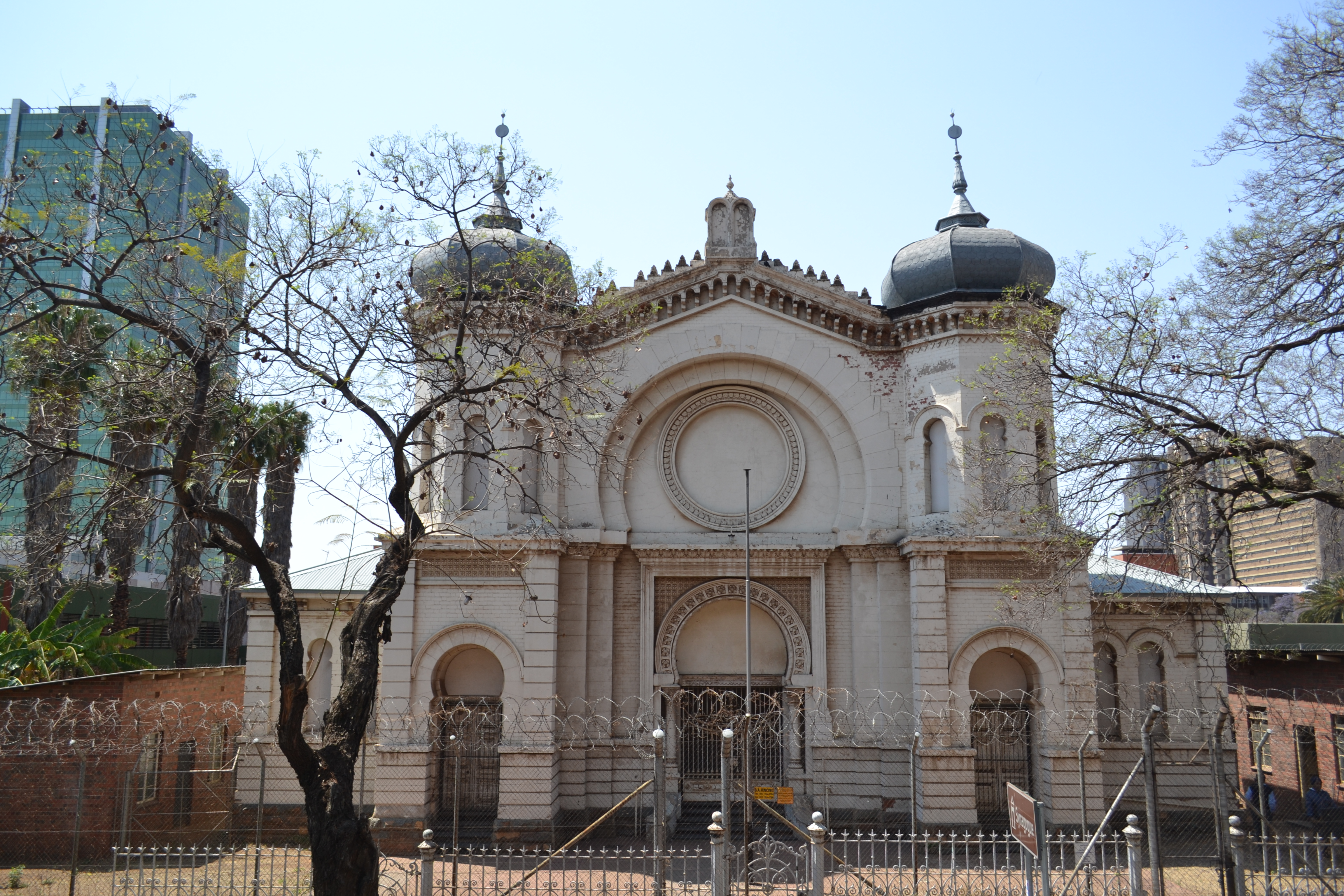 Old Synagogue Paul Kruger Street Pretoria This media shows a South African Protected Site with SAHRA file reference 9/2/258/0020 .